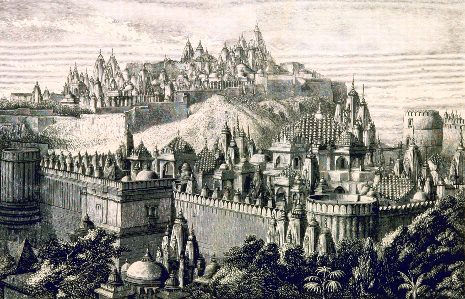 Image taken from: Title: "Architecture at Ahmedabad, the Capital of Goozerat, photographed by Colonel Biggs, ... With an historical and descriptive sketch, by T. C. H., ... and architectural notes by J. Fergusson, etc" Author: HOPE, Theodore Cracraft - Sir, K.C.S.I Contributor: BIGGS, Thomas. Contributor: FERGUSSON, James - Architect Shelfmark: "British Library HMNTS 10057.f.17.", "British Library OC V 6665" Page: 8 Place of Publishing: London Date of Publishing: 1866 Issuance: monographic Identifier: 001730119 Note: The colours, contrast and appearance of these illustrations are unlikely to be true to life. They are derived from scanned images that have been enhanced for machine interpretation and have been altered from their originals. If you wish to purchase a high quality copy of the page that this image is drawn from, please order it here. Please note that you will need to enter details from the above list - such as the shelfmark, the page, the book's volume and so on - when filling out your order. Following this or the link above will take you to the British Library's integrated catalogue. You will be able to download a PDF of the book this image is taken from, as well as view the pages up close with the 'itemViewer'. Click on the 'related items' to search for the electronic version of this work. Click here to see all the illustrations in this book and click here to browse other illustrations published in books in the same year. Please click on the tags shown on the right-hand side for other ways to browse the illustrations.